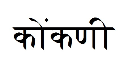 Konkani written in Devanagari script